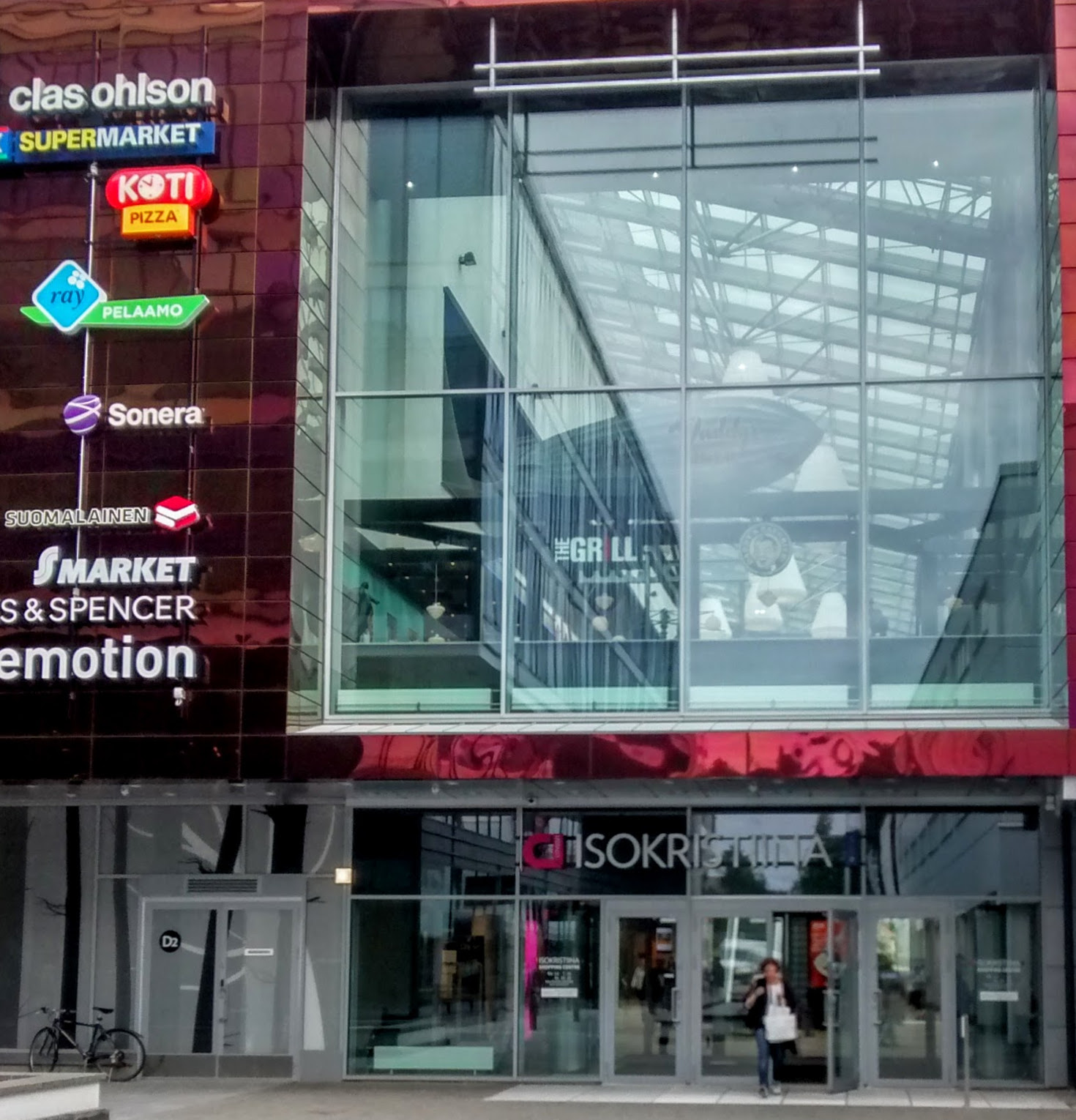 Iso-Kristiina shopping center, entrance on the west side of the north wing. Lappeenranta.